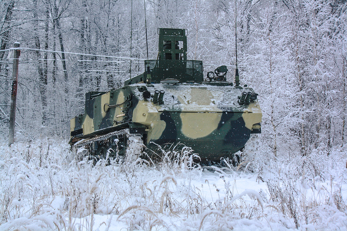 1st Guards Anti-Aircraft Rocket Regiment. Barnaul-T